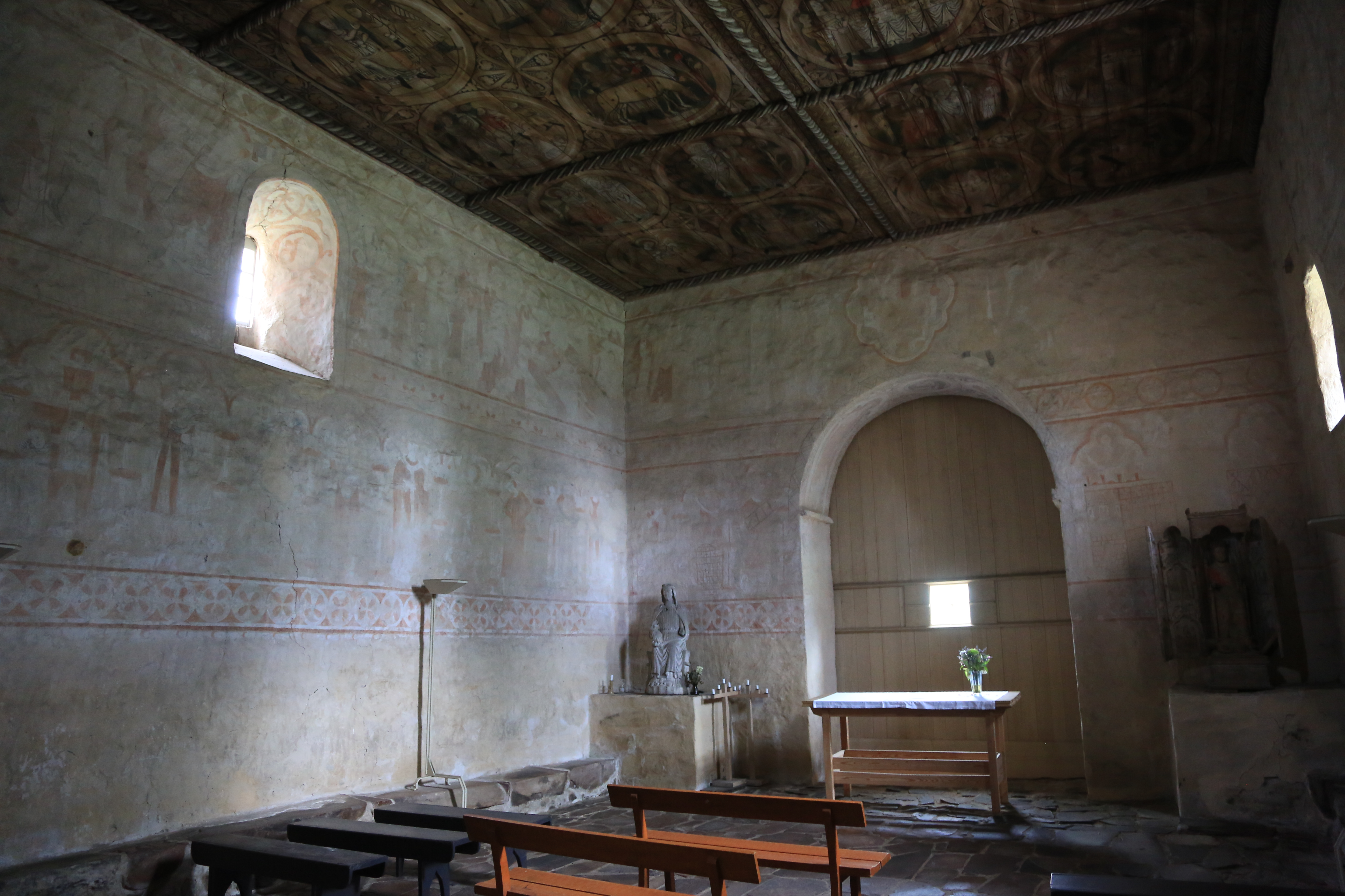 Interior of Dädesjö old church